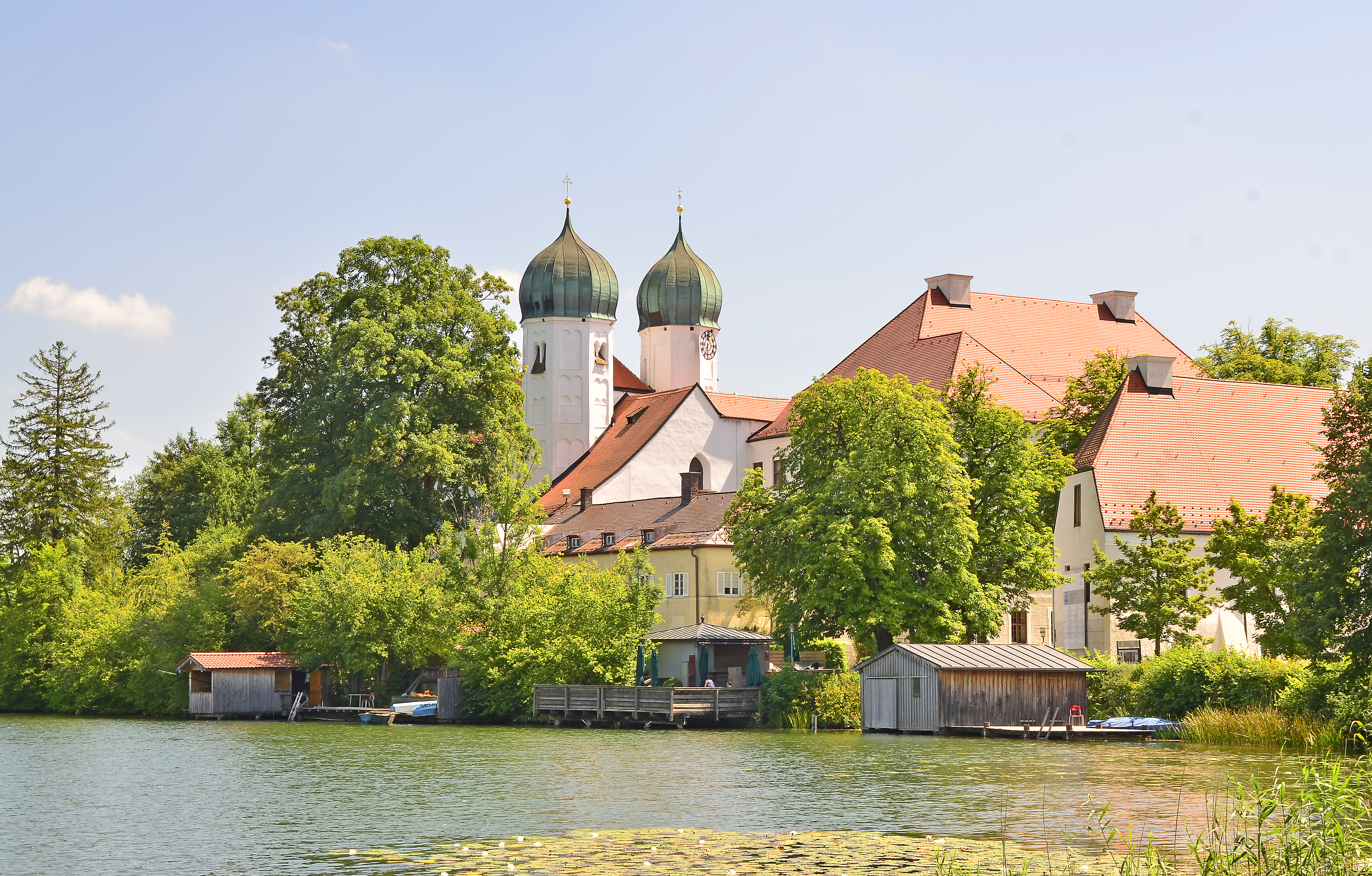 Cloister Seeon